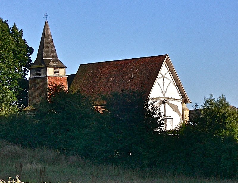 St Mary's parish church, Hartley Wespall, Hampshire, seen from the northwest, showing the west gable wall with 14th-century timber frame